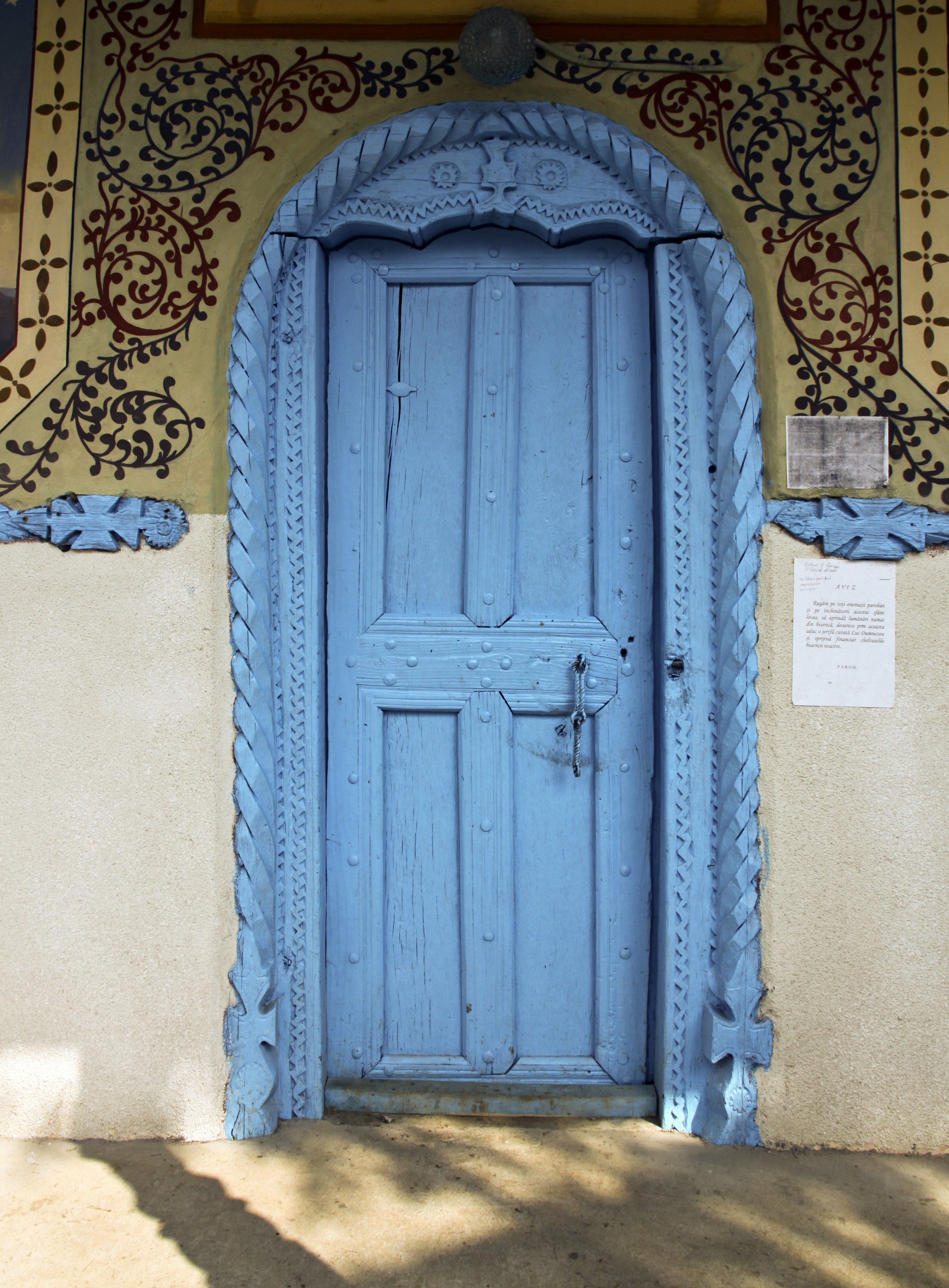 Gojgărei, Olt county, Romania: the wooden church, entrance.